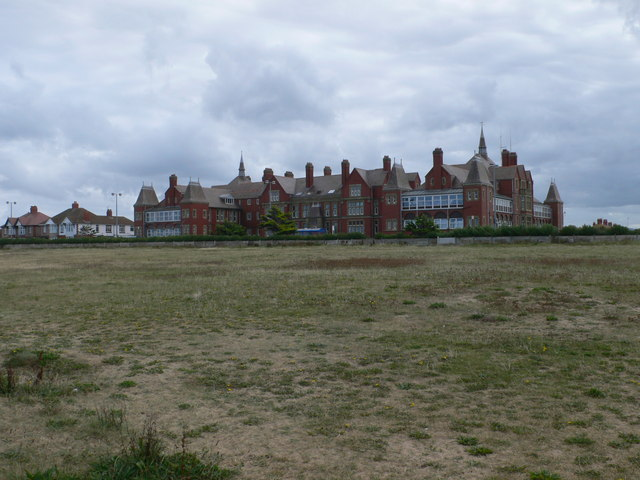 Ysbyty Frenhinol Alexandra The Royal Alexandra Hospital, on Marine Drive, Rhyl. Built in 1894, it was originally a children's hospital, and later a convalescent home; it is now a Community Hospital and a Family planning clinic.